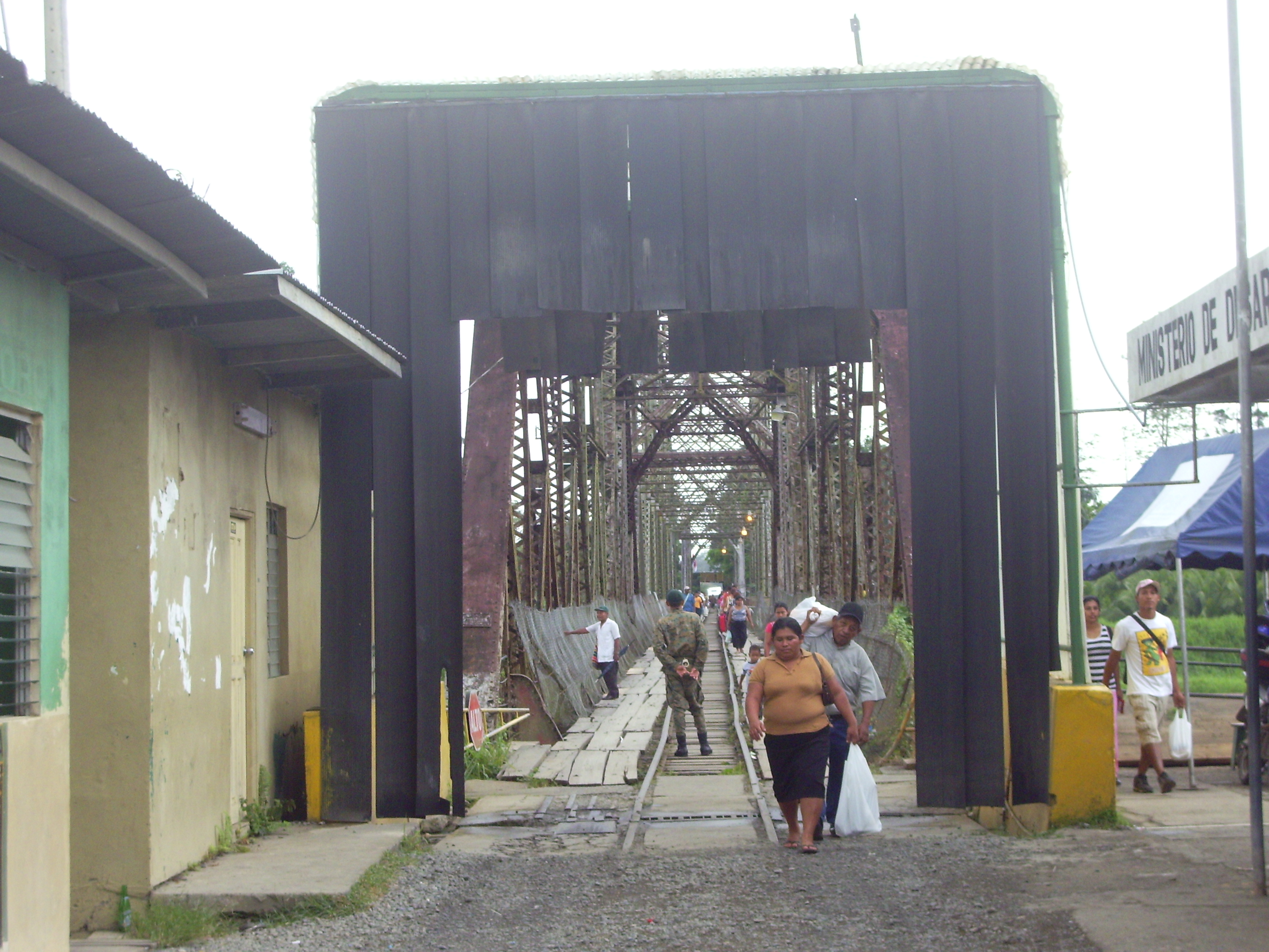 Starting point of the Bridge crossing Rio Sixaola on Panama Side. Rio Sixaola marks the border between Costa Rica and Panama.